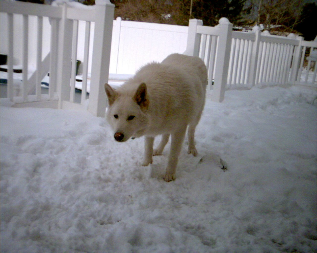 Self-taken photograph. Photographer is submitting author, User:Svartulfr1.